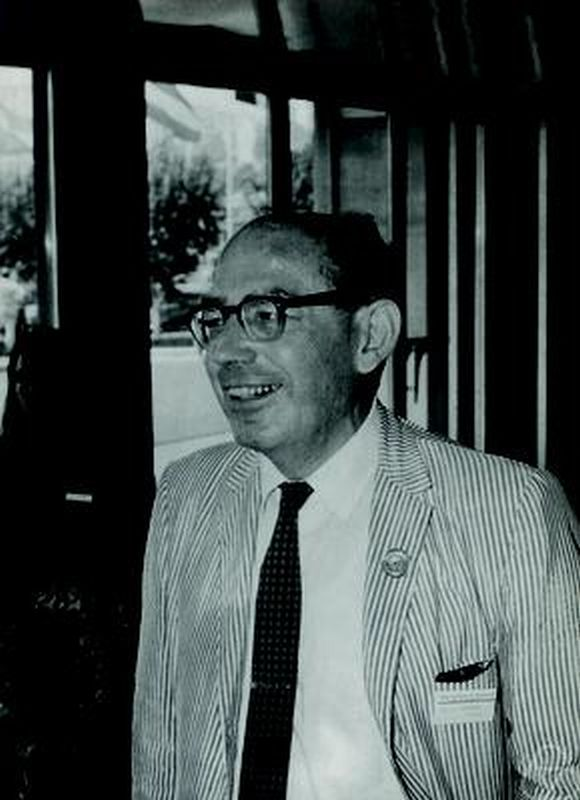 Abraham Robinson, Nizza 1970